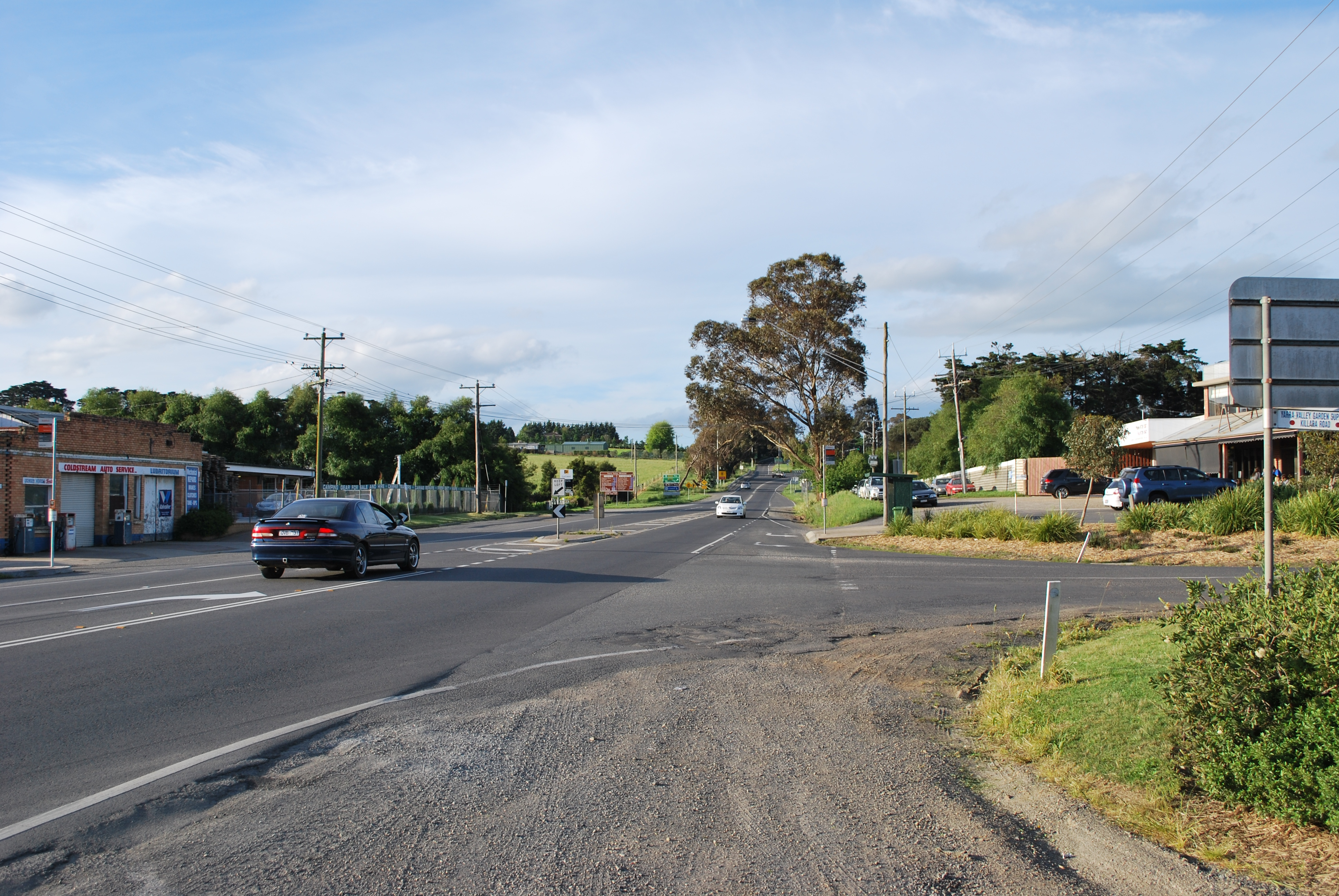 The main intersection at Coldstream, Victoria